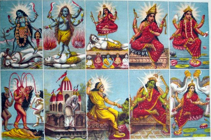 "Album of popular prints mounted on cloth pages. Colour lithograph, lettered, inscribed and numbered 37. The print is subdivided into ten equal parts, each representing one of the ten aspects of Devi, the divine mother. Each image is identified with a Bengali inscription, and the goddesses represented are: Kali, Tara, Shodashi, Bhuvaneshvari, Bhairavi, Chhinnamasta, Dhumavati, Bagalamukhi, Matangi, and Kamala. 2003,1022,0.37, AN804243 "